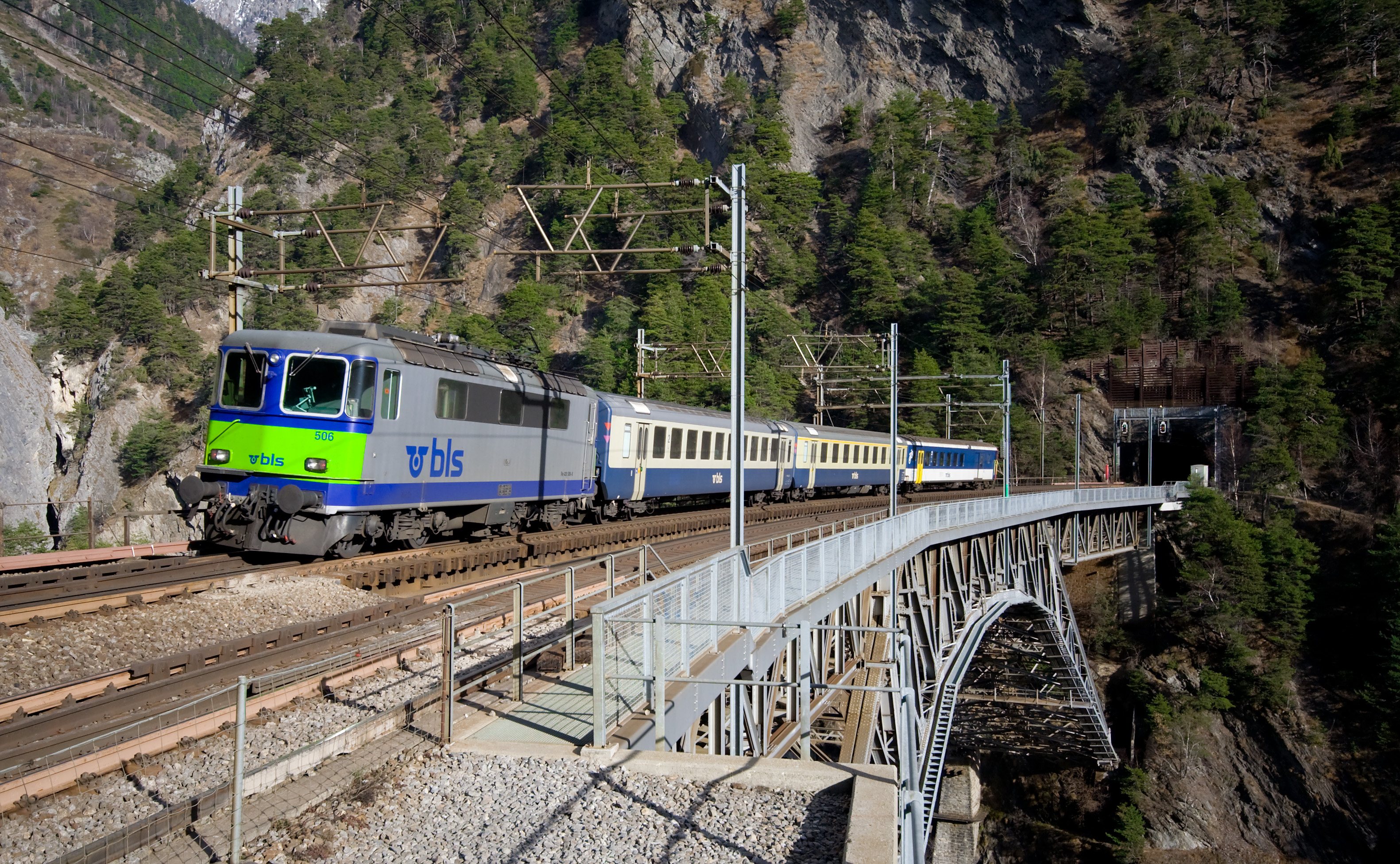 Former SBB, now BLS AG Re 420.5 in new BLS colors with a push-pull train on the Bietschtal bridge. The two standard coaches still have the old BLS livery, while the control car has the SBB "NPZ" color scheme.